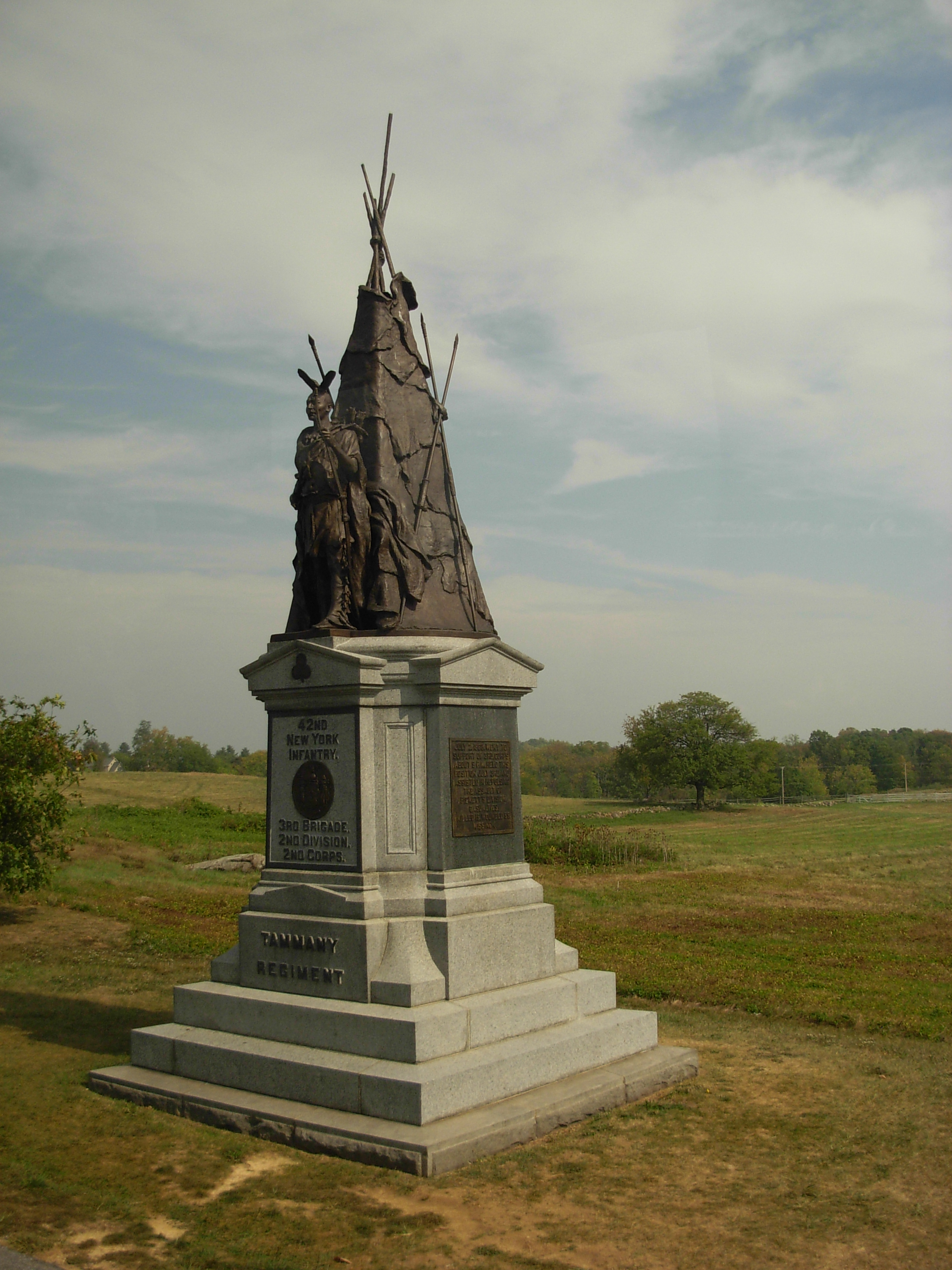 Gettysburg National Military Park and Gettysburg National Cemetery: 42nd New York Infantry Memorial: Chief Tammany.